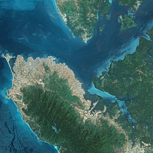 Freetown by SPOT Satellite